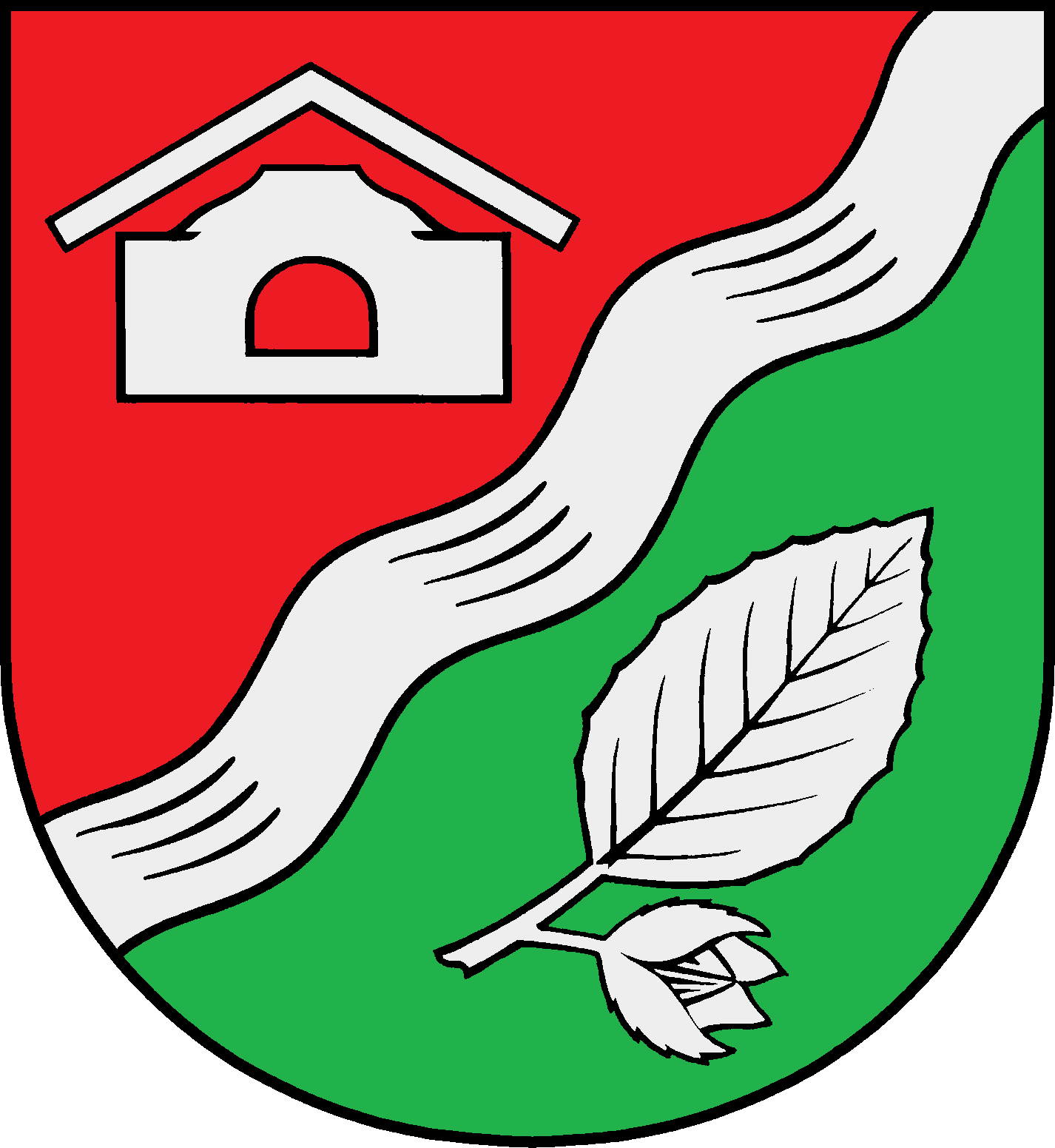 Coat of arms of the municipality Struvenhütten in Schleswig-Holstein, Germany.